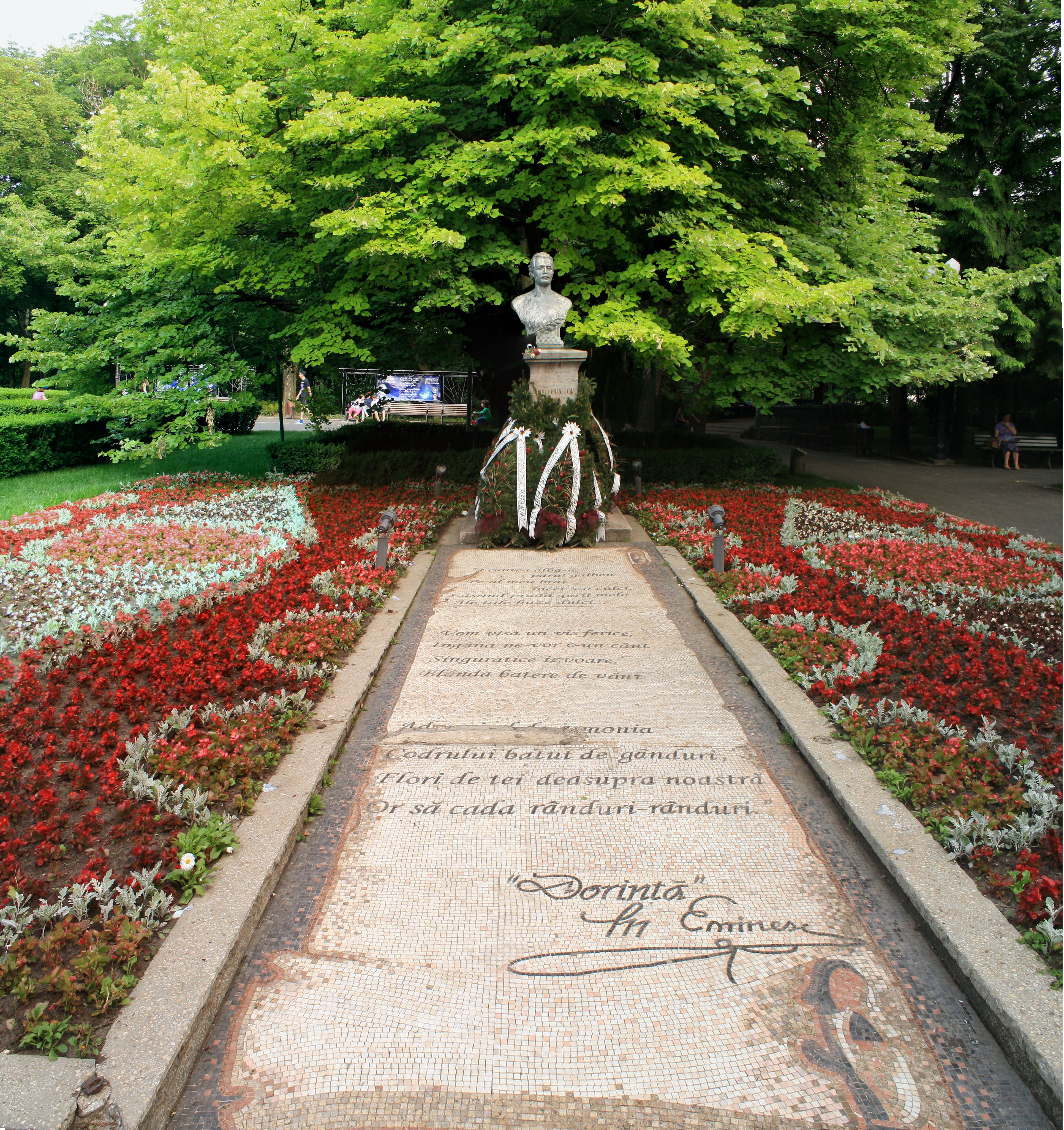 Parcul Copou (Bustul şi Teiul lui Eminescu privite dinspre mozaic)